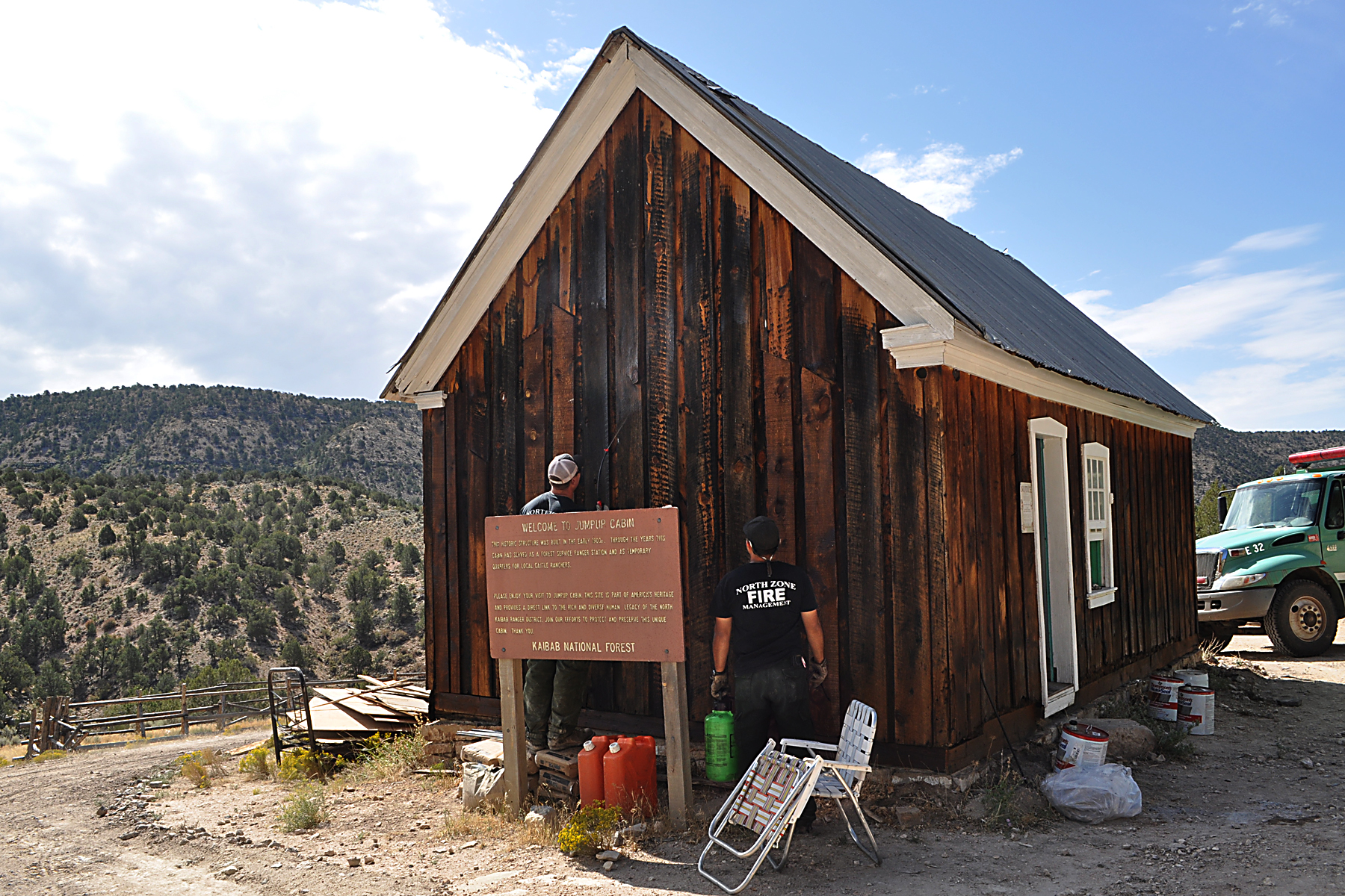 Jump Up Cabin on the North Kaibab Ranger District, Kaibab National Forest, Arizona. Please give credit to: U.S. Forest Service, Southwestern Region, Kaibab National Forest.